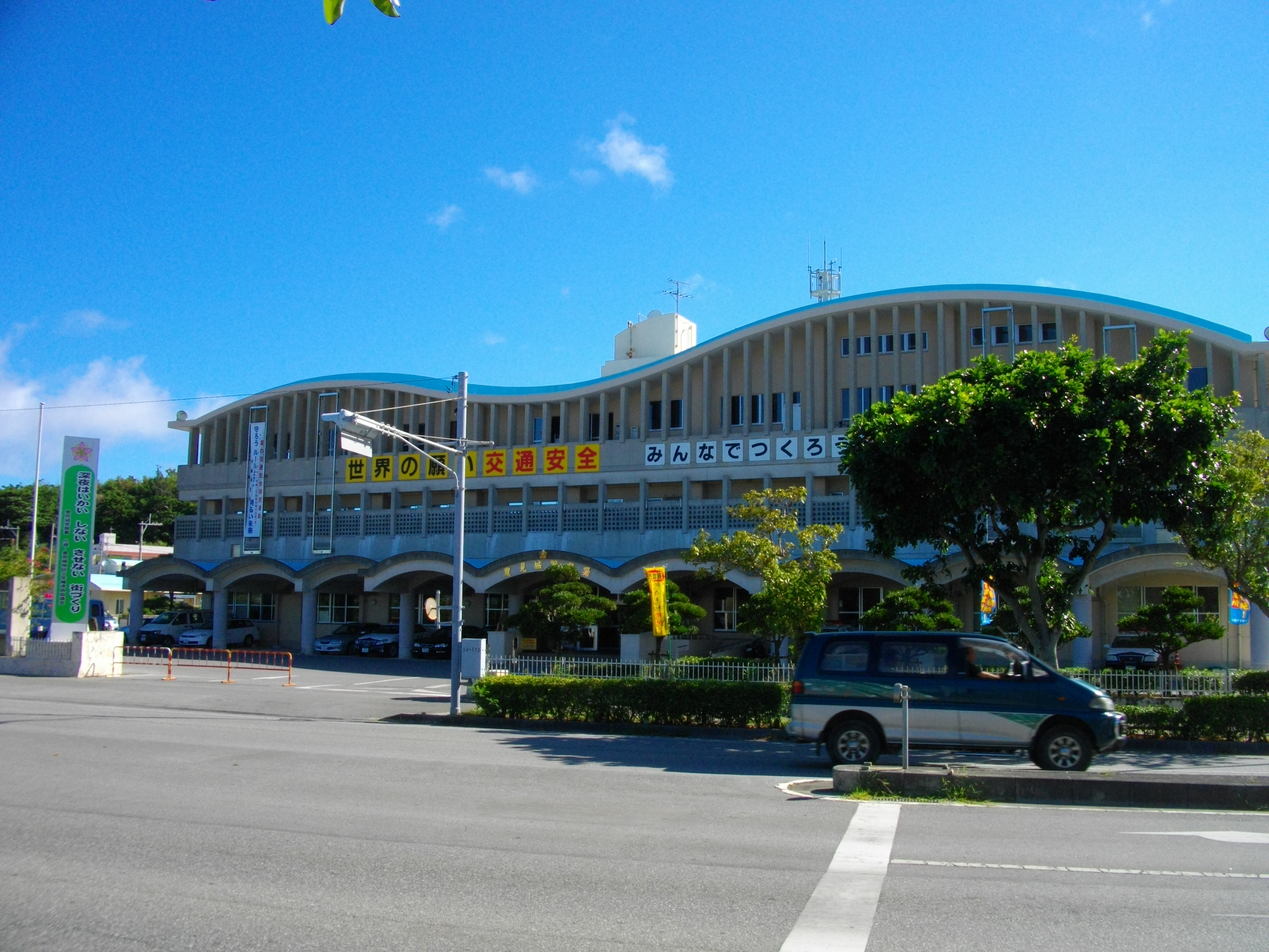 Tomigusuku Police Station